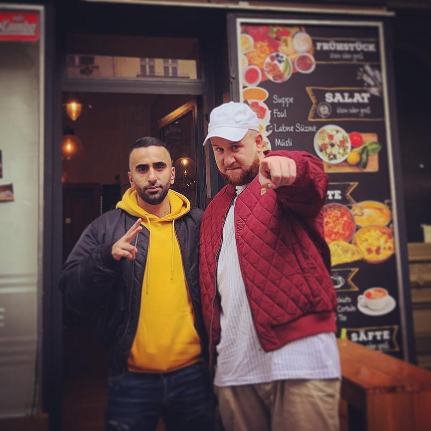 Jay Jiggy mit PA Sports